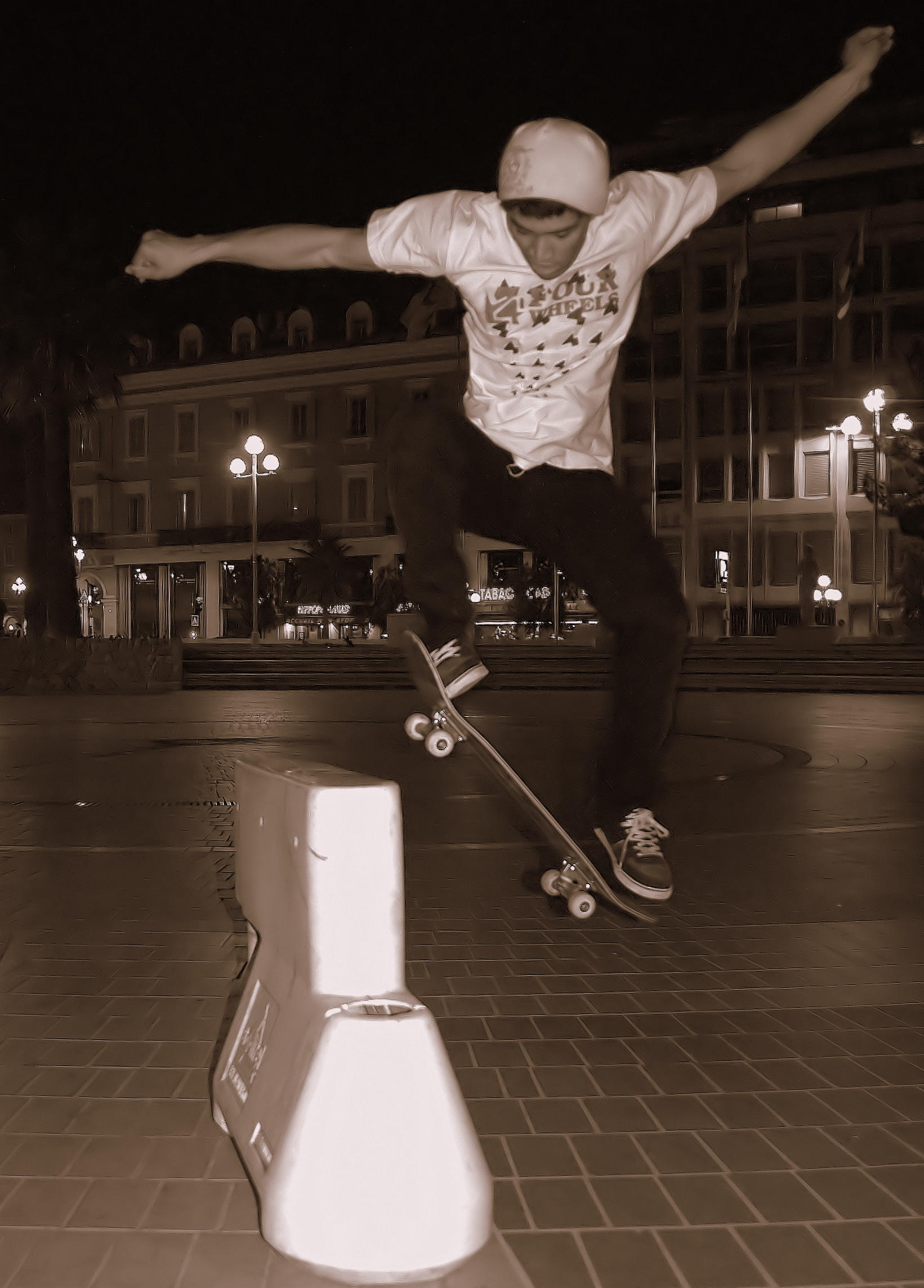 An attempt to ollie over a barrier on a skateboard